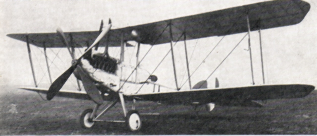 Photo of prototype B.E.12 in RFC service markings taken in 1915/16.